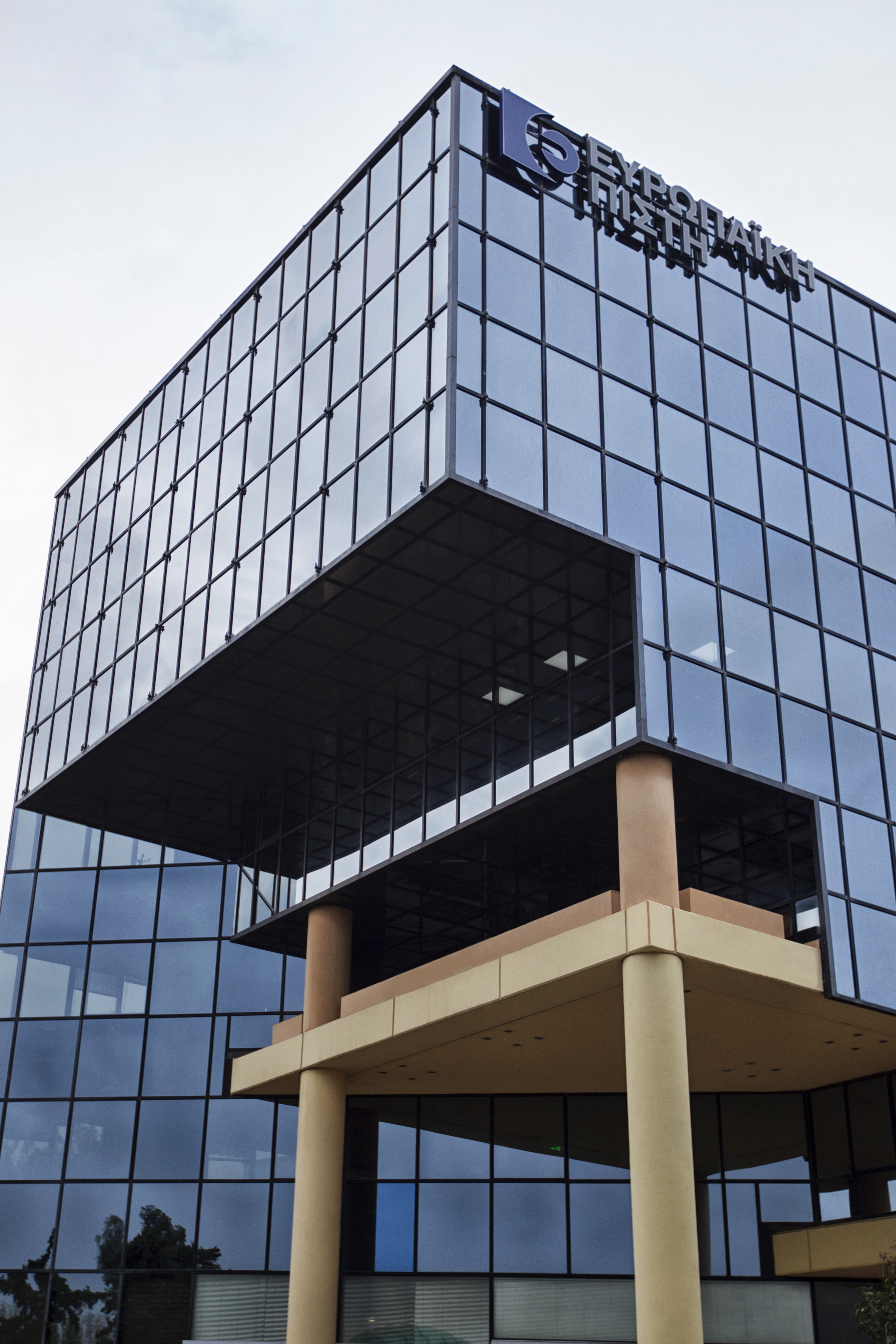 Office building of European Reliance.